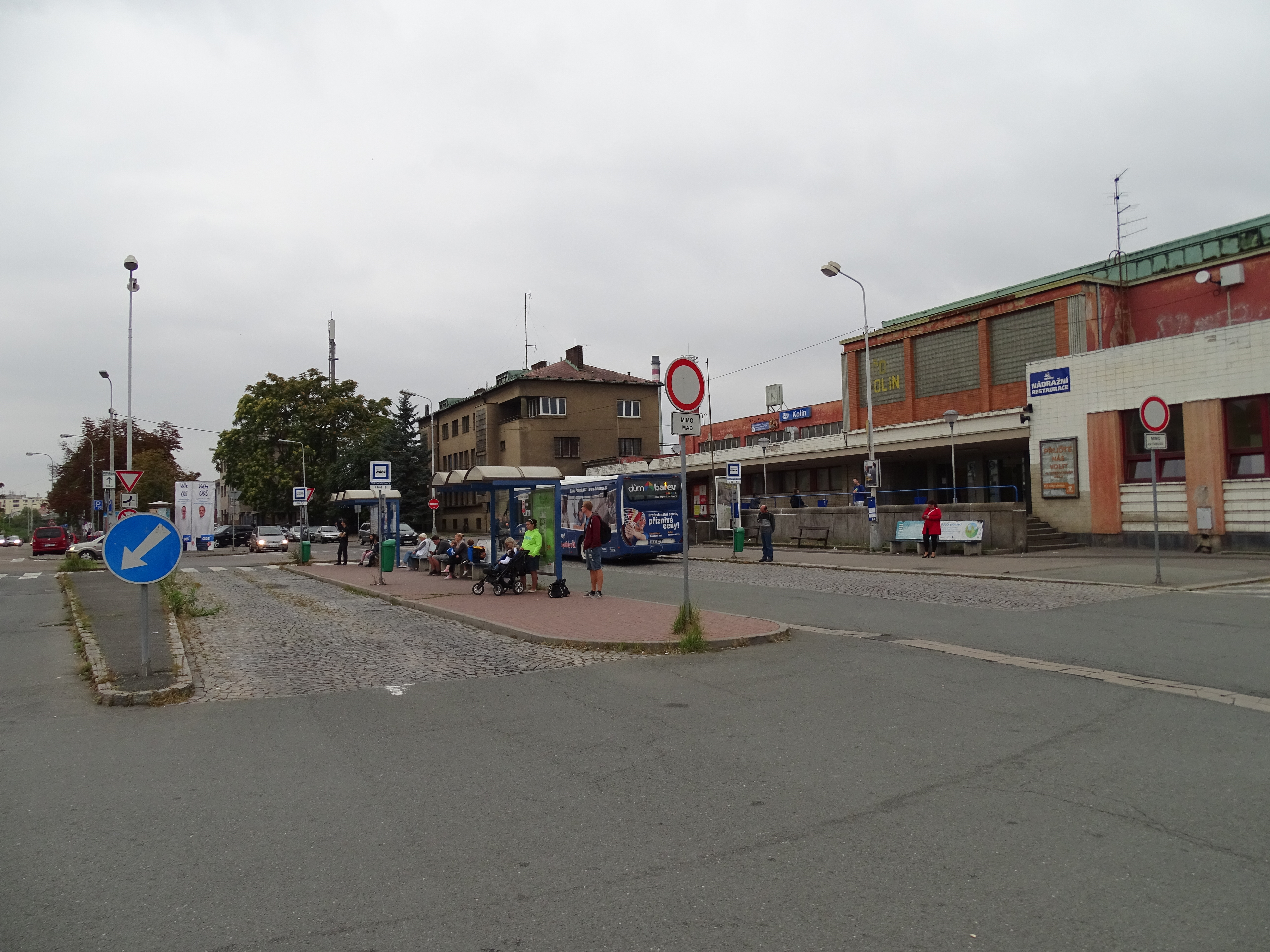 Kolín IV, Kolín District, Central Bohemian Region, Czechia, train station Kolín.